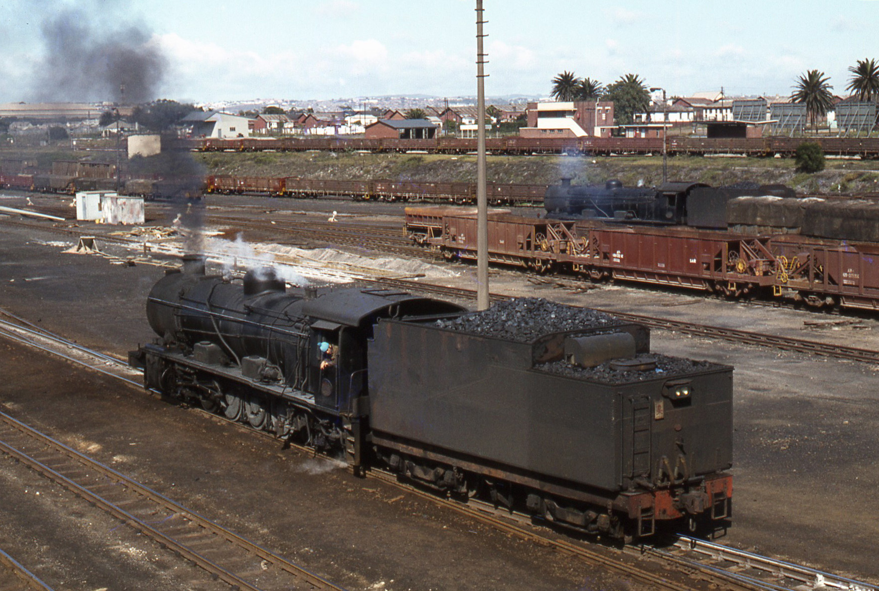 SAR Class 12R 1862 (4-8-2) BP Location: New Brighton, Port Elizabeth